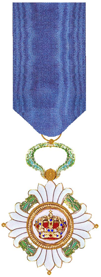 Knight of the Order of the Yugoslav Crown